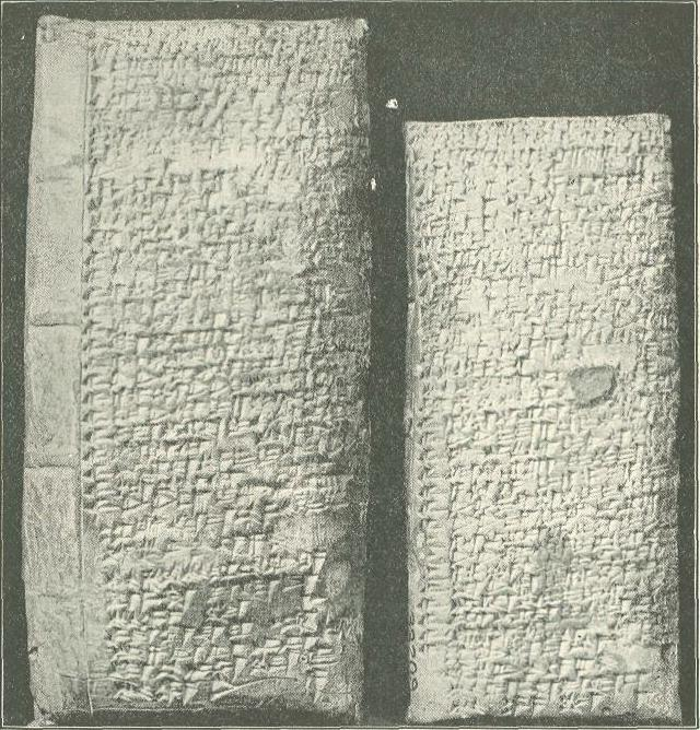 Semitic Babylonian Contract-tablet. Inscribed in the reign of Hammurabi with a deed recording the division of property. The actual tablet is on the right; that which appears to be another and larger tablet on the left is the hollow clay case in which the tablet on the right was originally enclosed.